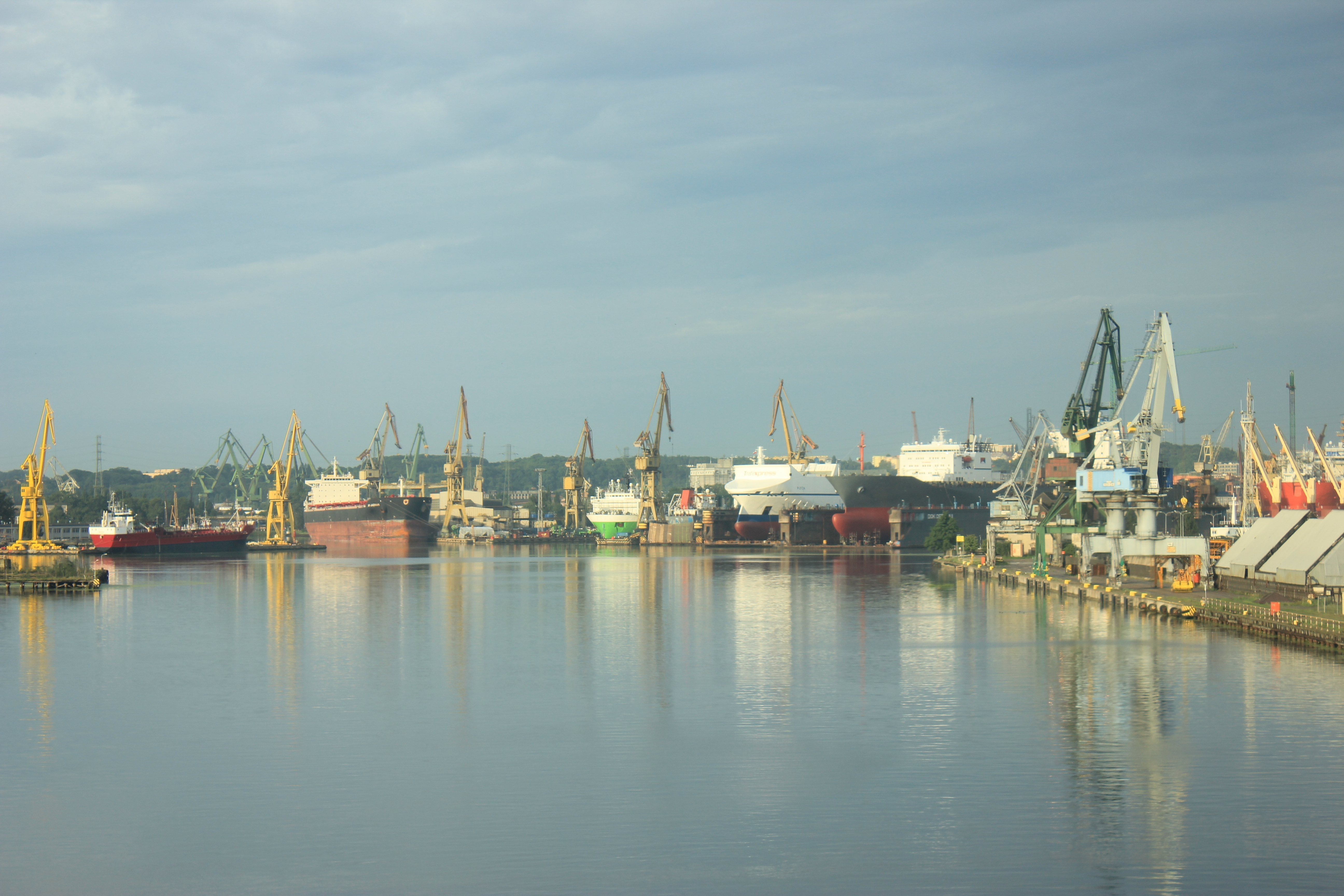 Gdańsk - Gdańsk Shiprepair Yard